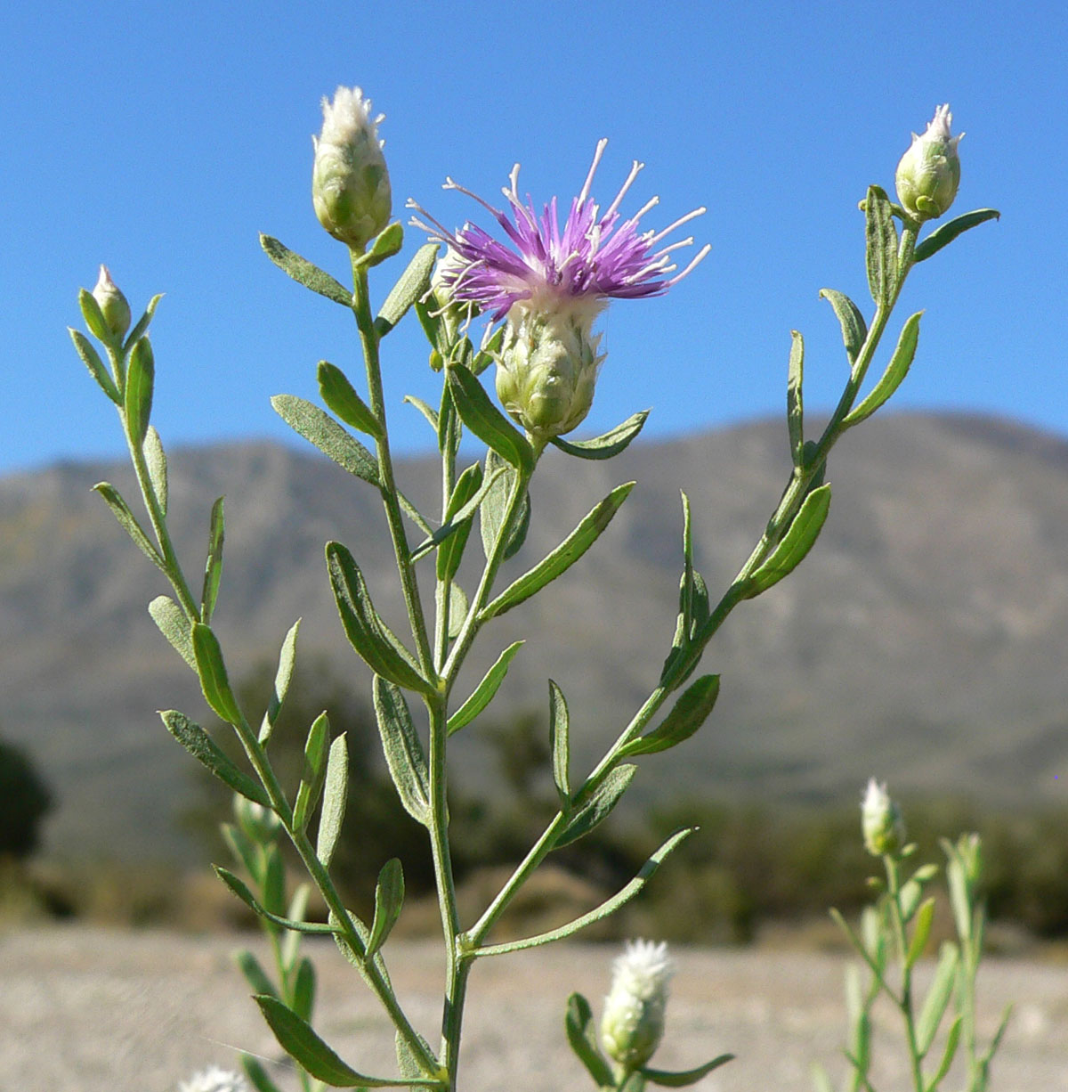 Rhaponticum repens (syn. Acroptilon repens) near Cold Creek Fire Station, Spring Mountains, southern Nevada (elev. about 1800 m)